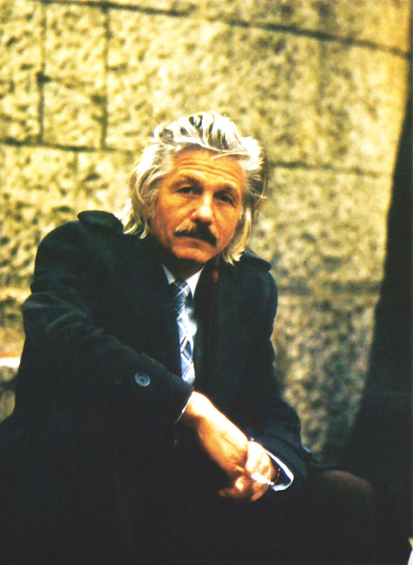 One of last meetings of the author with outstanding Moldavian actor Mihai Volontir (the end of 80th years).